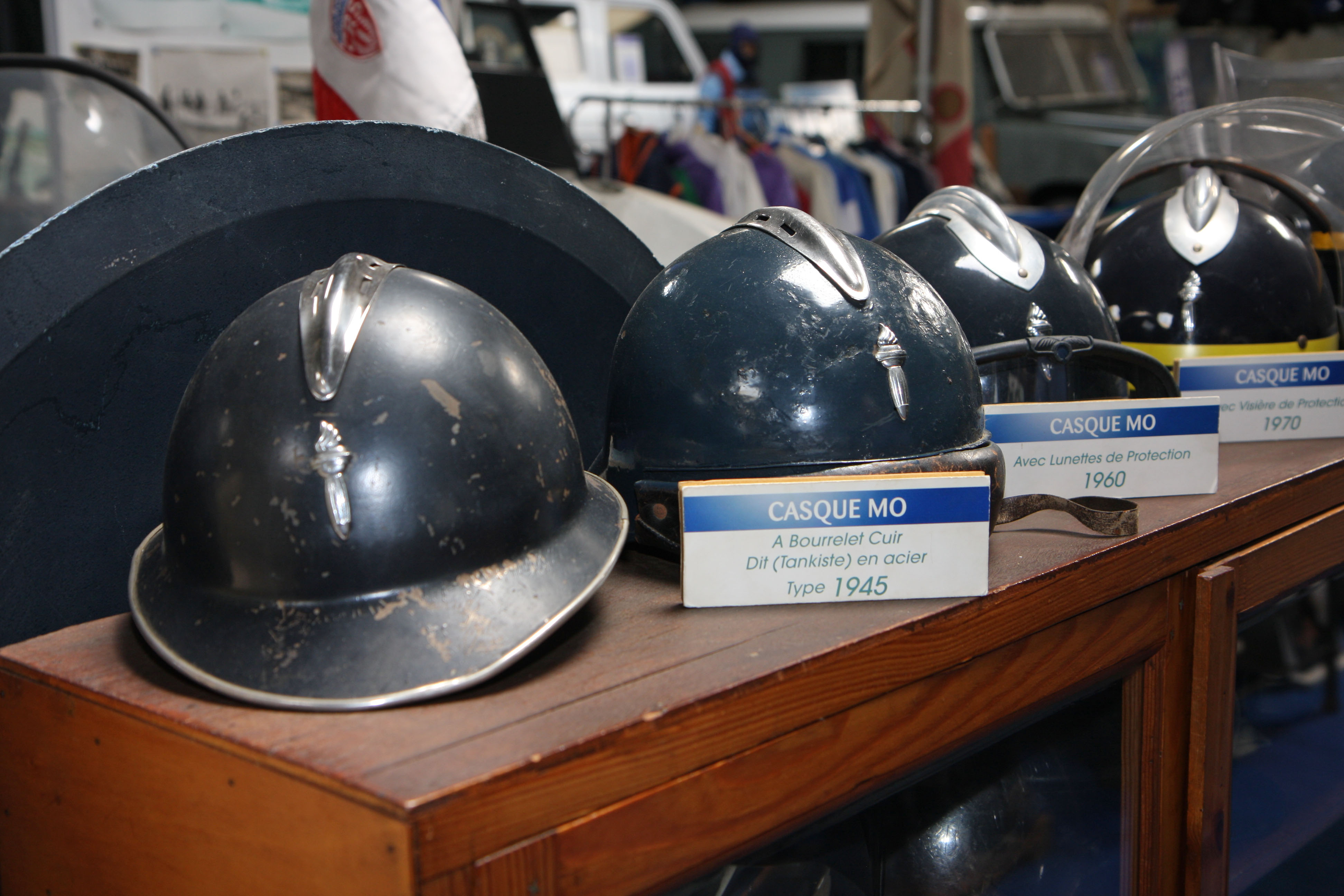 French CRS Riot control helmets 1- CRS museum